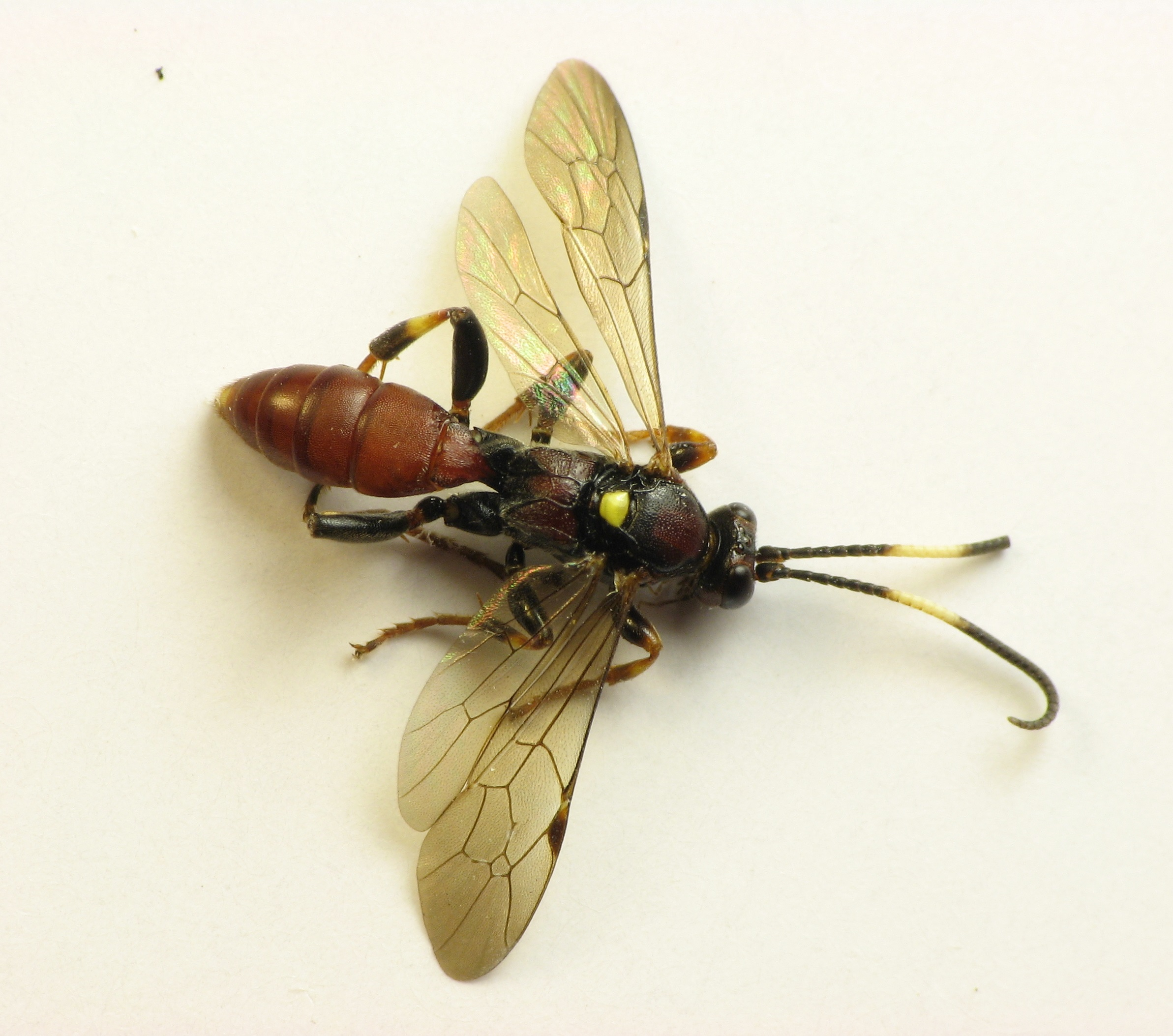 Female Ichneumon ultimus hibernating under bark. Size: 10 mm. Peace Valley Nature Center, Bucks County, Pennsylvania, USA.